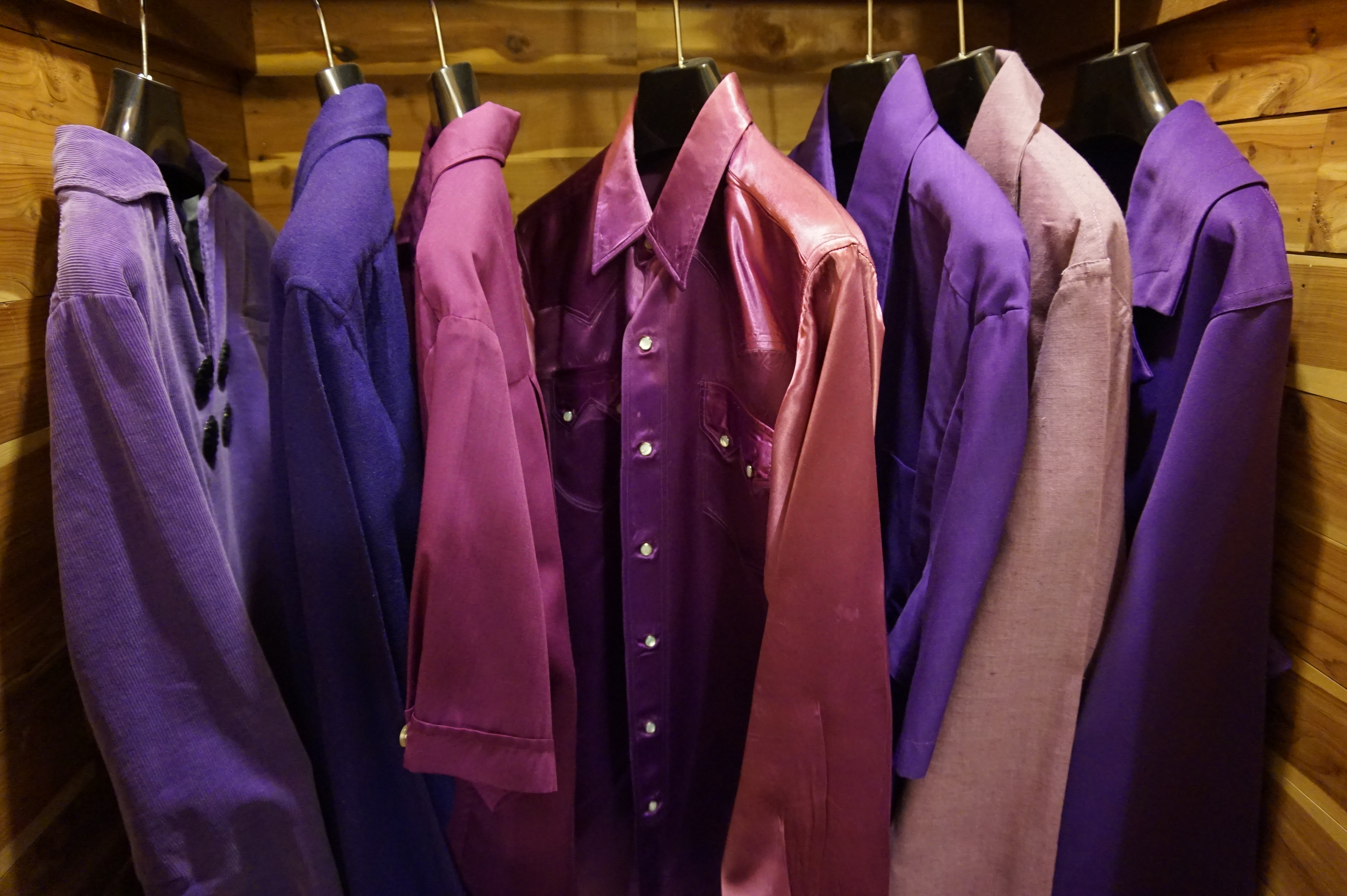 Milton H. Erickson used to always wear purple clothes.